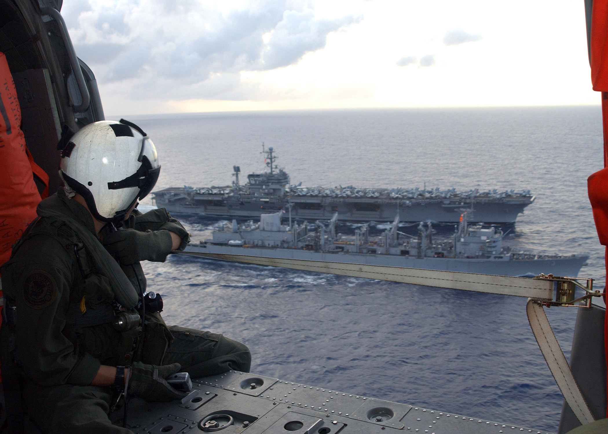 Atlantic Ocean (June 11, 2004) - Aviation Electronics Technician 3rd Class Phillip Beatty, assigned to the "Dragon Whales" of Helicopter Combat Support Squadron Eight (HC-8), observes the aircraft carrier USS John F. Kennedy (CV 67) approaching the fast combat support ship USS Seattle (AOE 3) for an early morning underway replenishment. HC-8 is currently embarked aboard Seattle on a regularly scheduled deployment. Seattle is part of the John F. Kennedy Carrier Strike Group (CSG) currently involved in a joint exercise known as Combined Joint Task Force Exercise (CJTFEX). The exercise allows all services and several countries to train the way they fight, in a joint environment. U.S. Navy photo by Photographer's Mate 2nd Class Michael Sandberg (RELEASED)